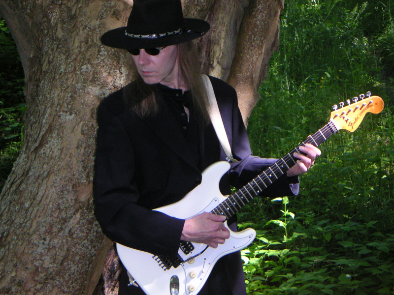 Zeno Roth